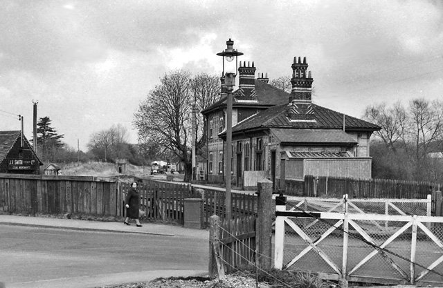 Bishop's Waltham Station. View NE, towards buffer-stops; terminus of branch from Botley. Branch closed to passengers 2/1/33, but to goods not until 30/4/62.